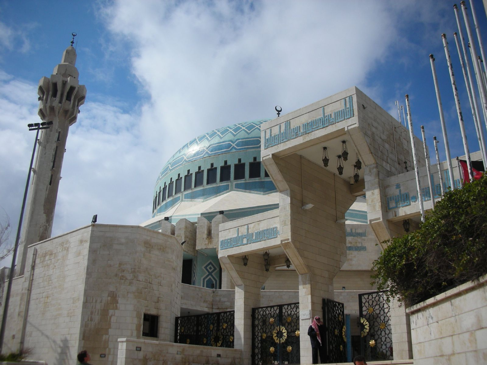 King Abdullah I Mosque , one of the largest in Amman Jordan